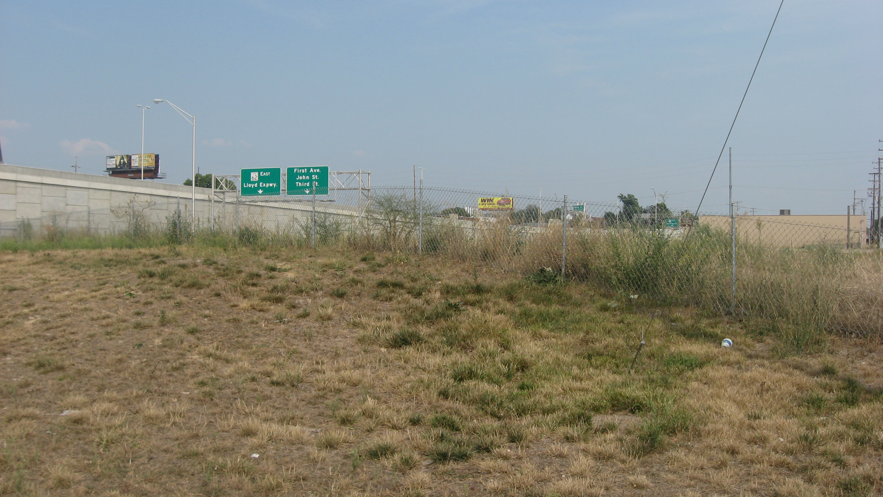 An empty lot on the northeastern corner of Fulton Avenue and Ohio Street in Evansville, Indiana, United States. The lot was formerly the location of the headquarters of the Orr Iron Company; built in 1912, it was listed on the National Register of Historic Places in 1978, and it remains on the Register, despite its destruction in 2010.